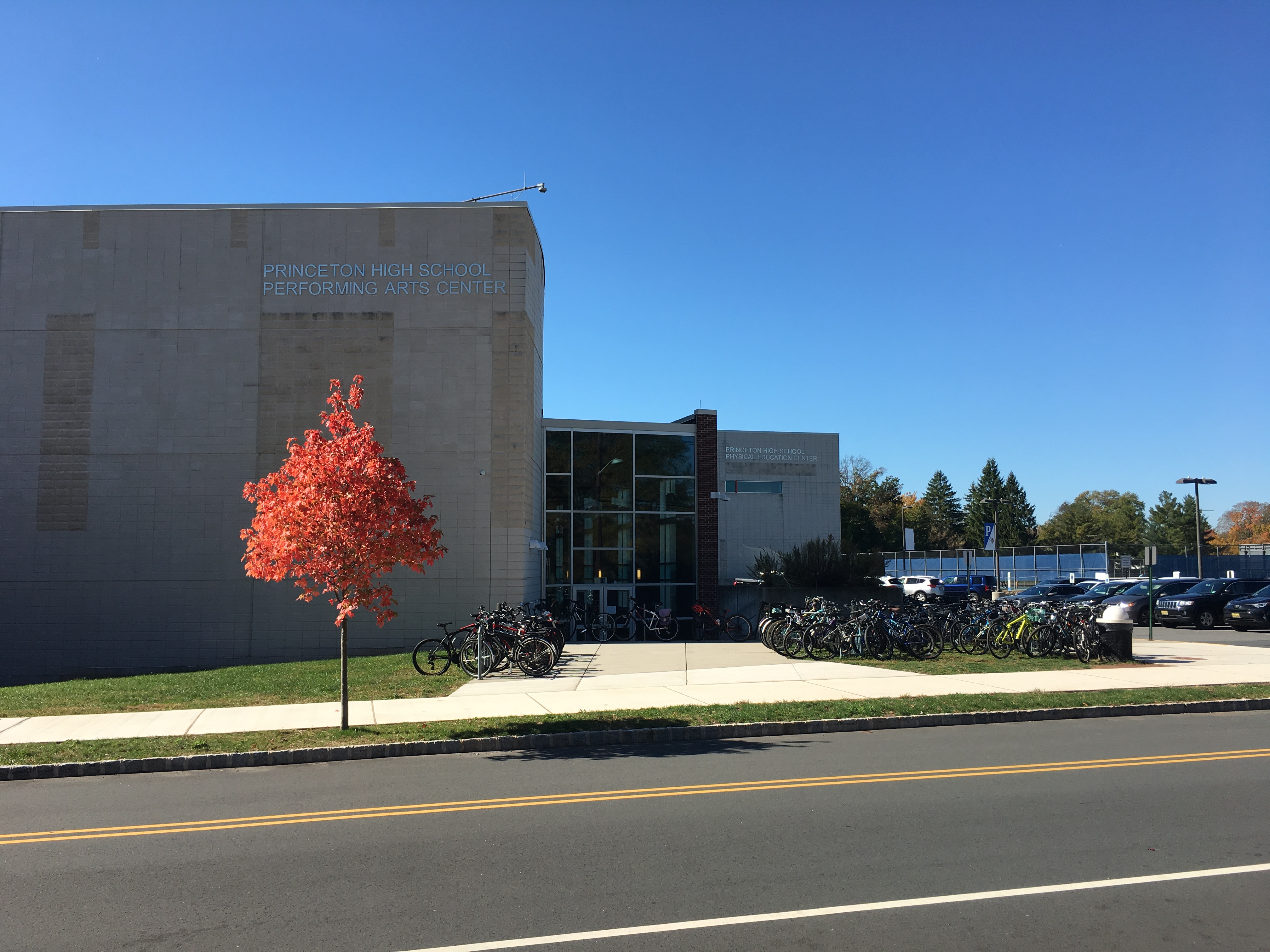 The Performing Arts Center and Physical Education Center structures at the rear of Princeton High School in Princeton, New Jersey. A bit of the playing fields can be seen on the far right.